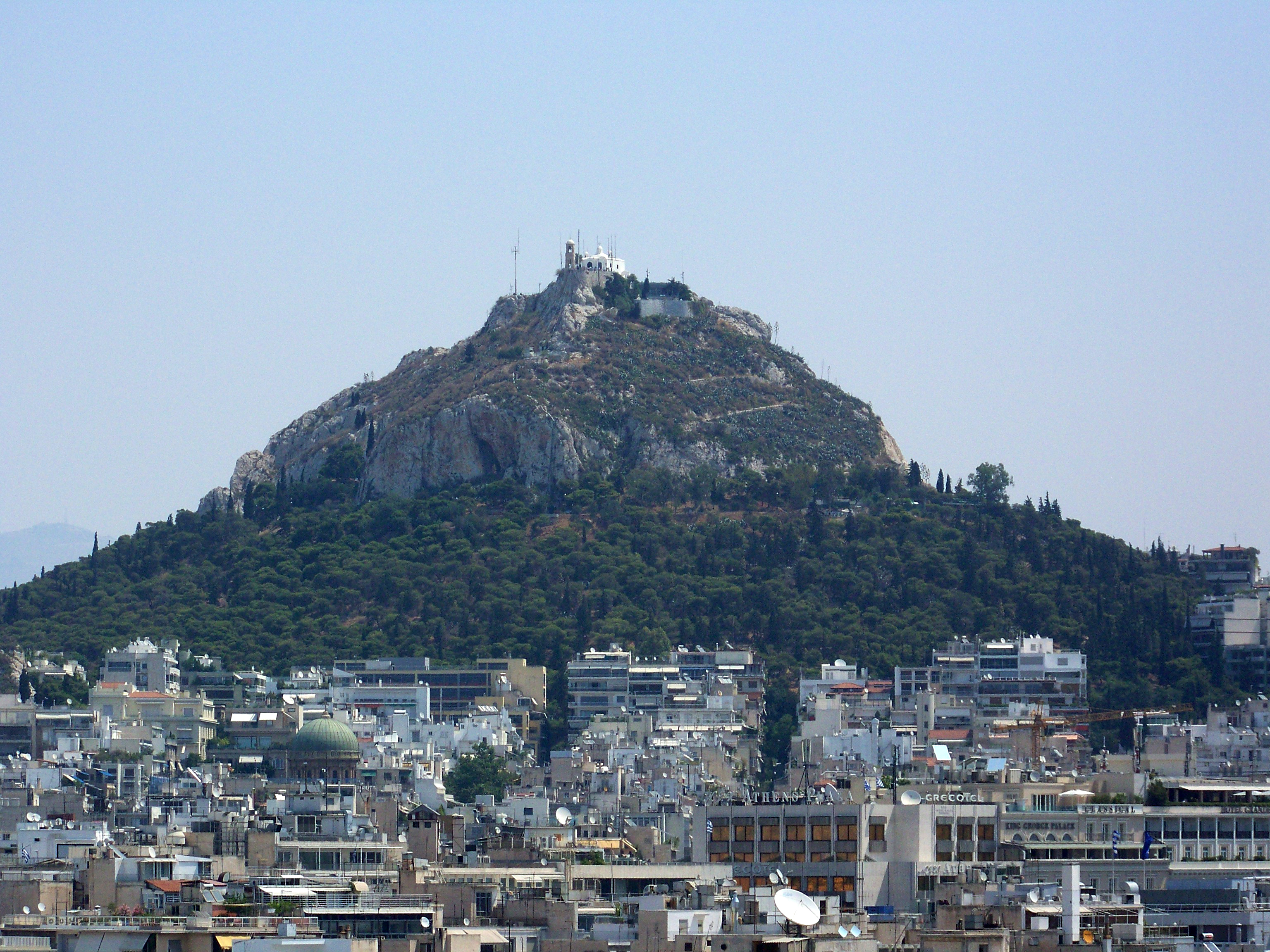 Mount Lycabettus, Athens, Greece.